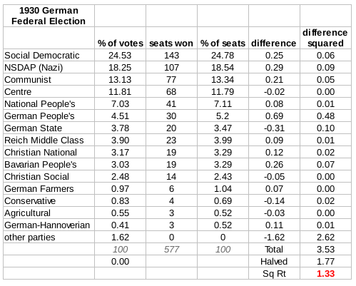 Gallagher Index for 1930 German federal election